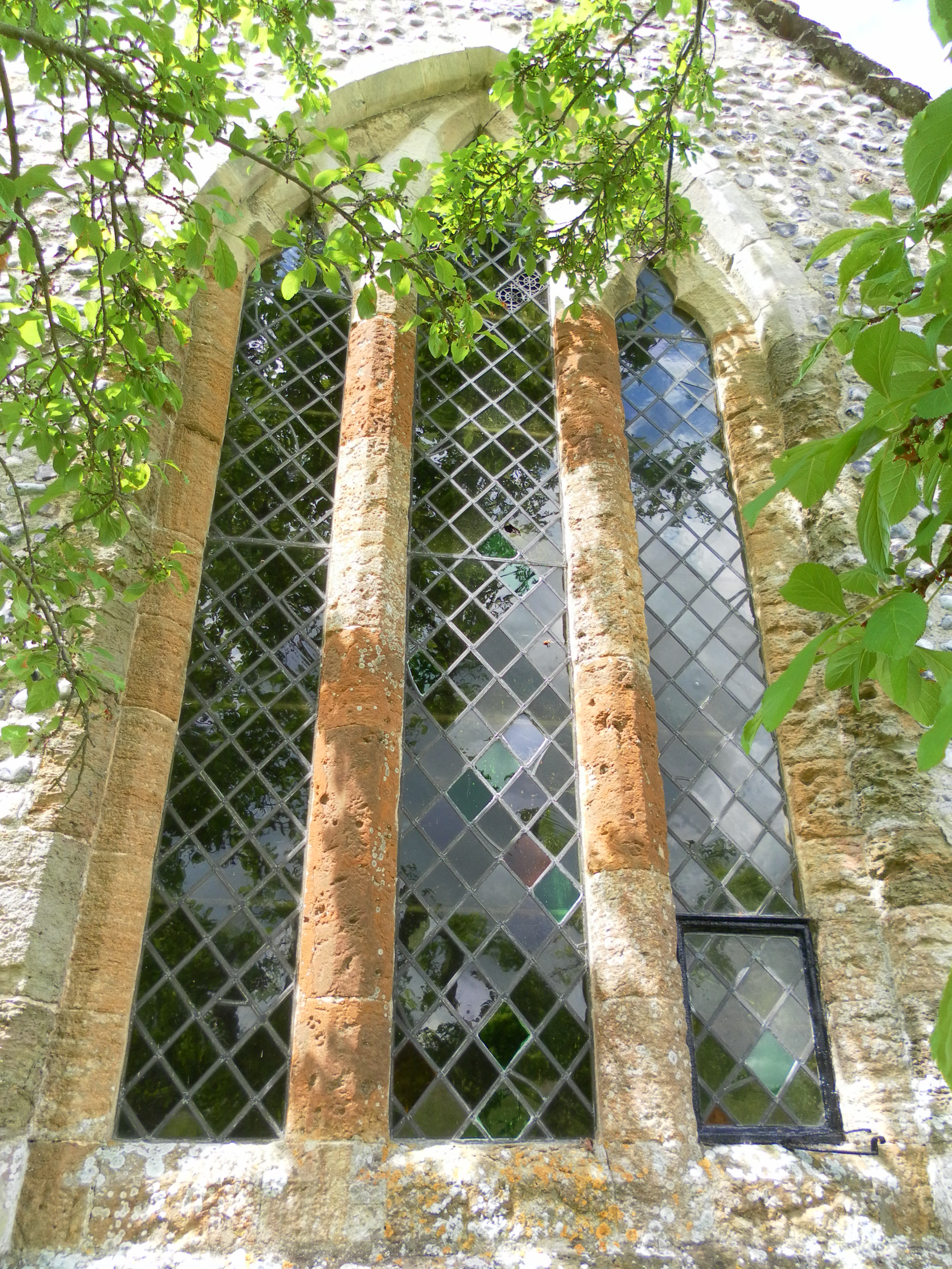 East window at Bailiffscourt Chapel, Bailiffscourt Hotel, Atherington, Arun District, West Sussex, England. A former private chapel (occasionally used for public worship) in the grounds of the former Bailiffscourt Manor. Listed at Grade II* by English Heritage (NHLE Code 1233450)